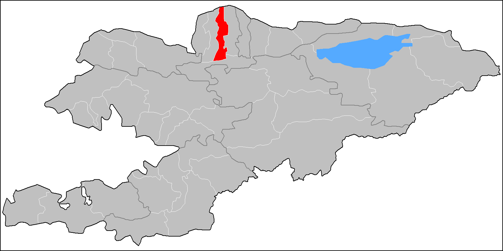 The location of the raion (district) of Moskva in Kyrgyzstan. Based on Image:Kyrgyzstan raions.png